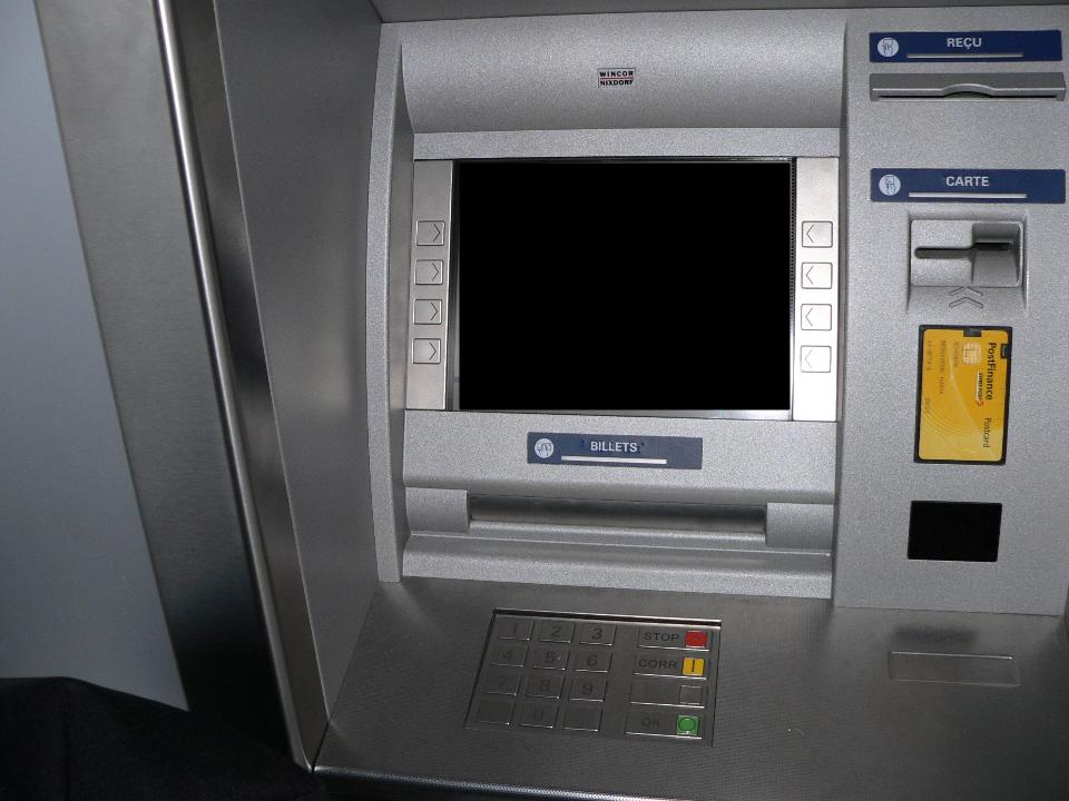 Wincor-Nixdorf ProCash 2050 Cash Dispenser.